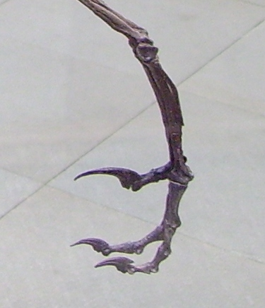 Photographer: User:Ballista